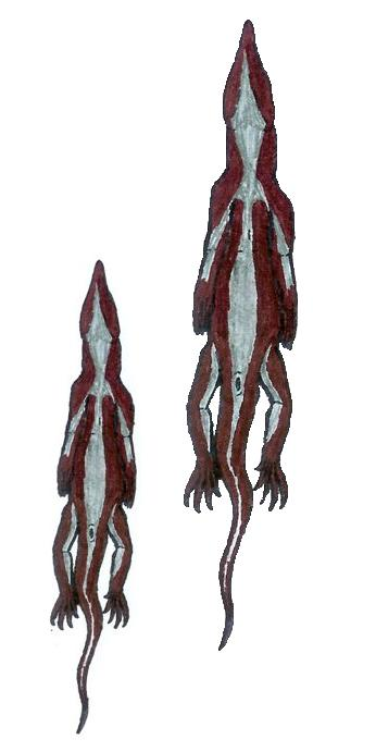 Lazarussuchus dvoraki mother with young.